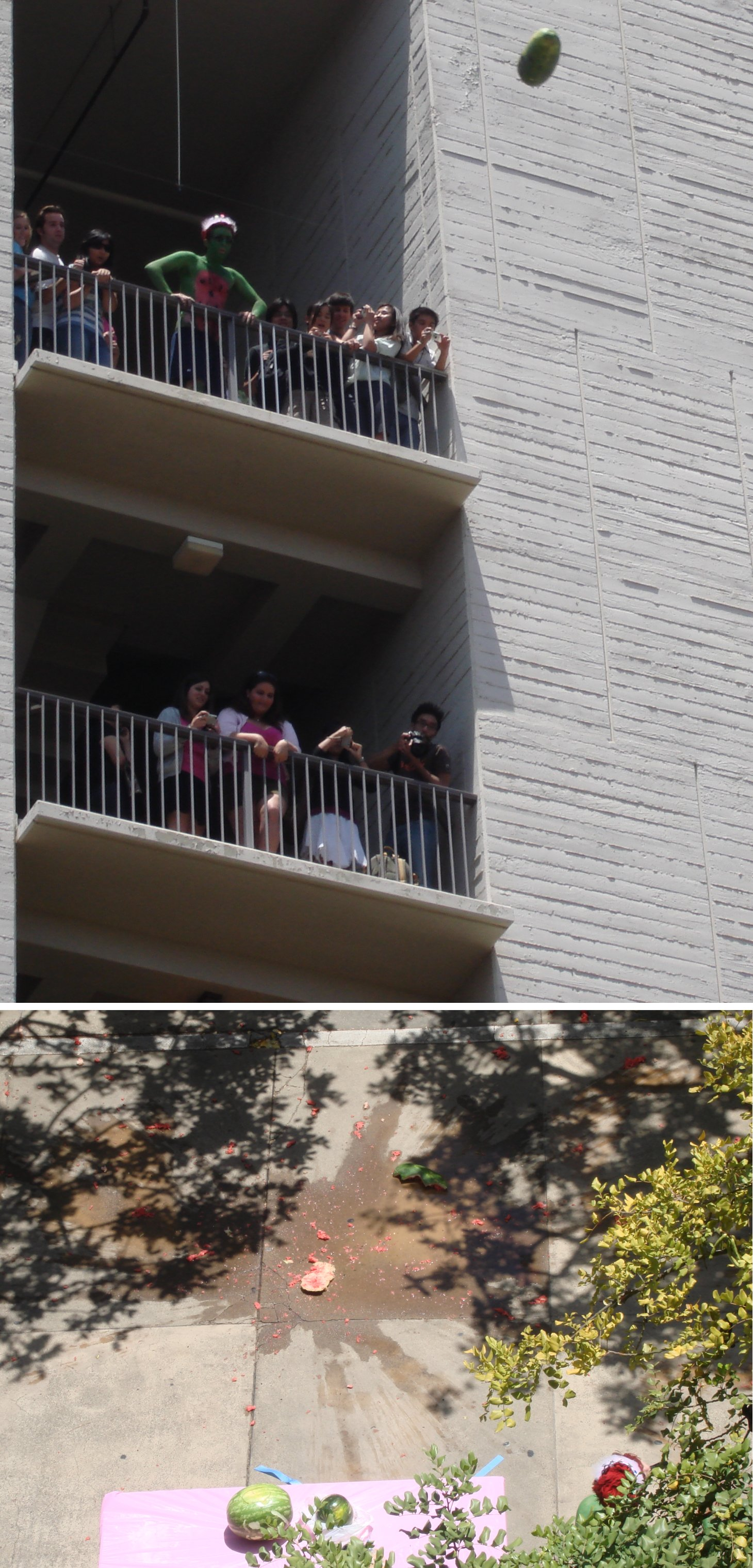 This is a derivative combination image made from two Commons images: Image:Watermelon Drop, UCSD.jpg and Image:Watermelon drop, splatter, UCSD.jpg. Combination work by User:Binksternet